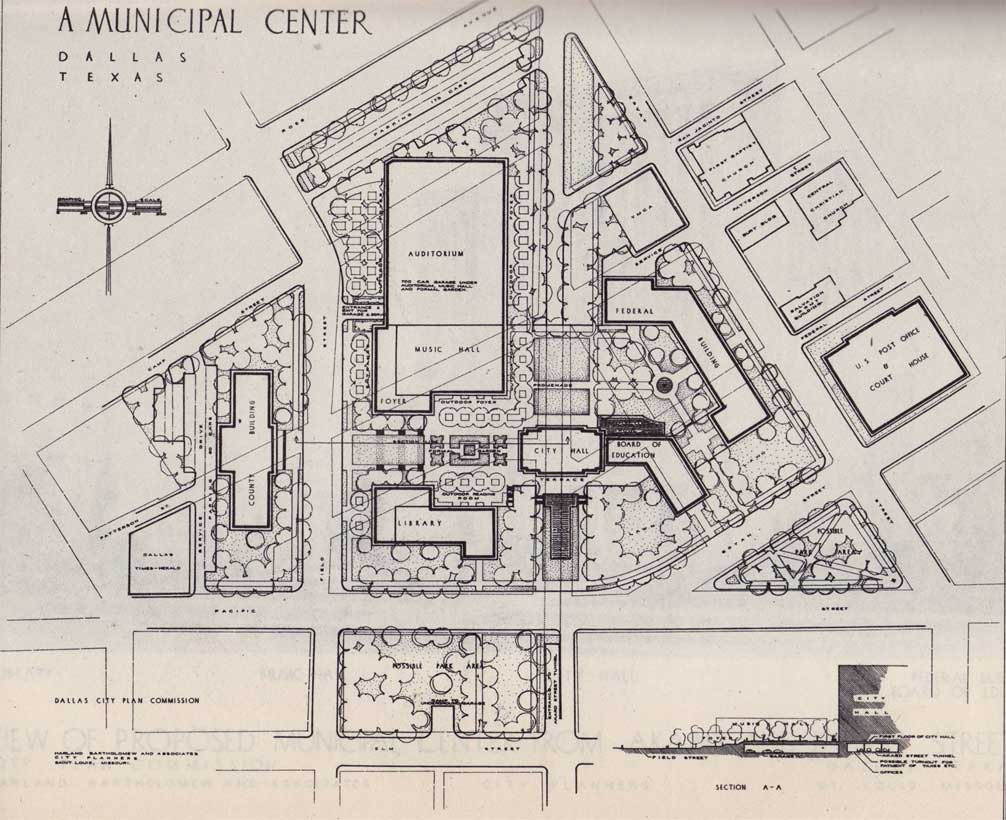 This is a scan from the 1946 Dallas city plan showing a detailed layout for a municipal center. It was never built, because of the cost, but the city took the idea and made something out of their city hall and the huge plaza in front of it.